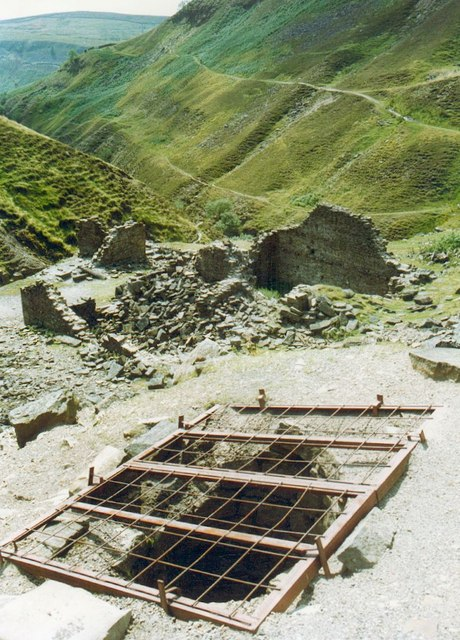 Old Shaft Swinnergill This covered shaft is situated just above the old mine buildings at the head of Swinnergill. Not usually seen by walkers on the Coast to Coast path which passes below.